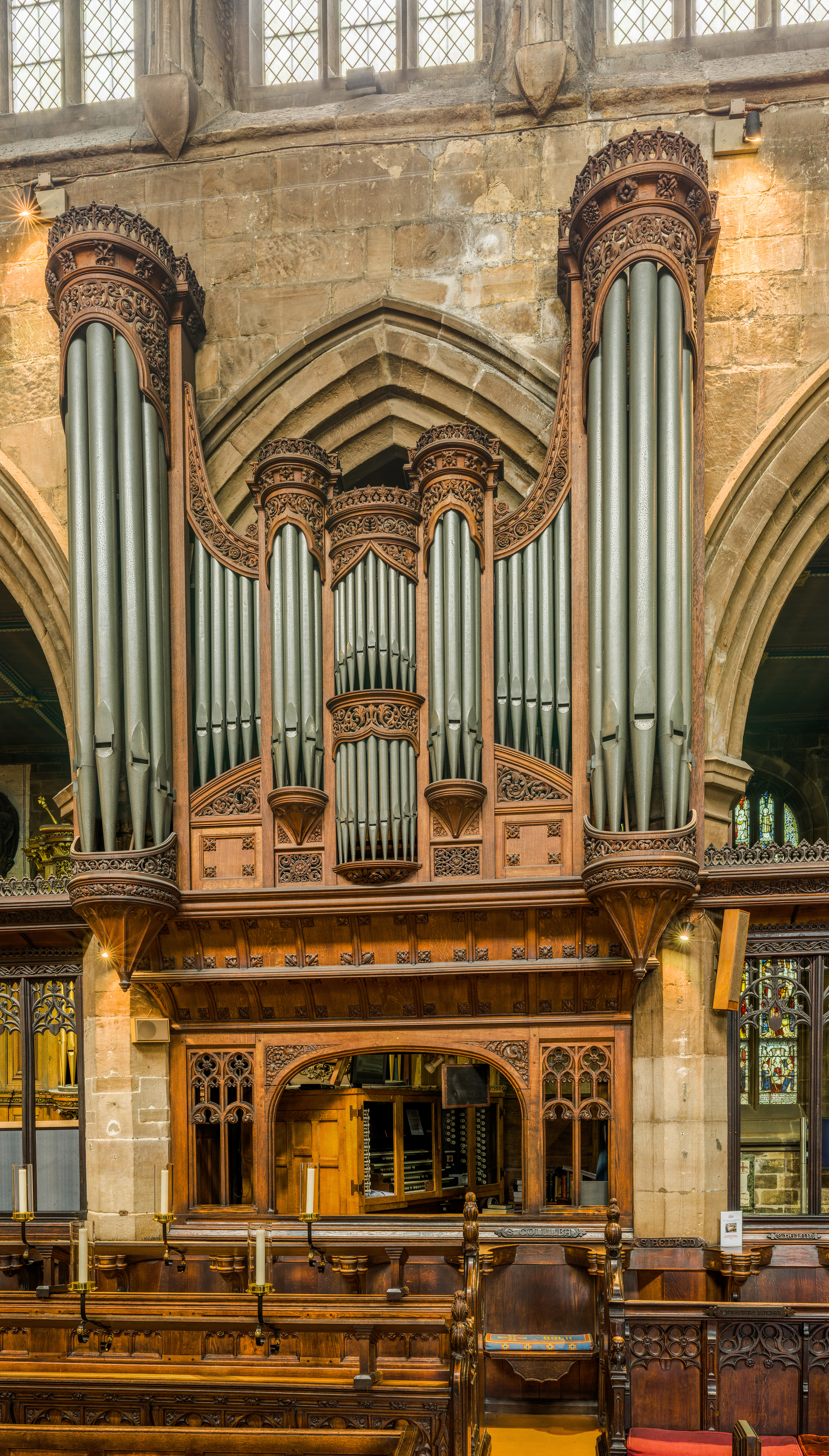 The choir organ of Wakefield Cathedral in West Yorkshire, England.